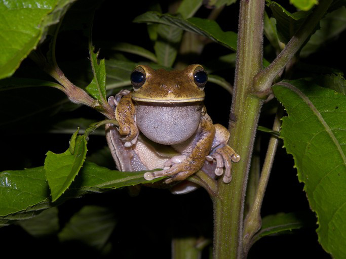 Hypsiboas crepitans